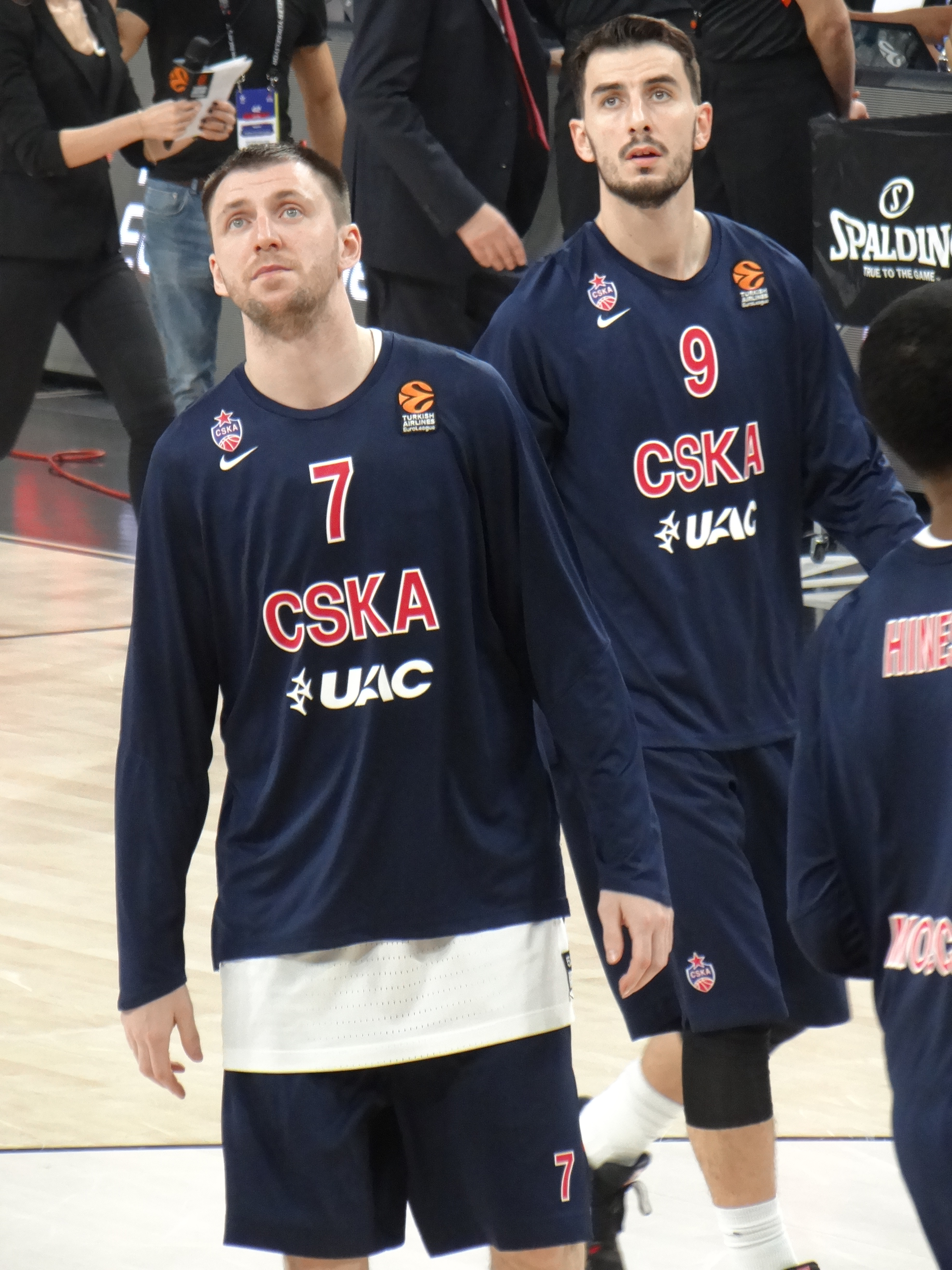 Vitaly Fridzon 7 PBC CSKA Moscow 20171027